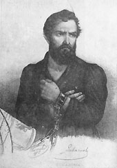 Walerian Łukasiński, reproduction of the 19th century lithograph.